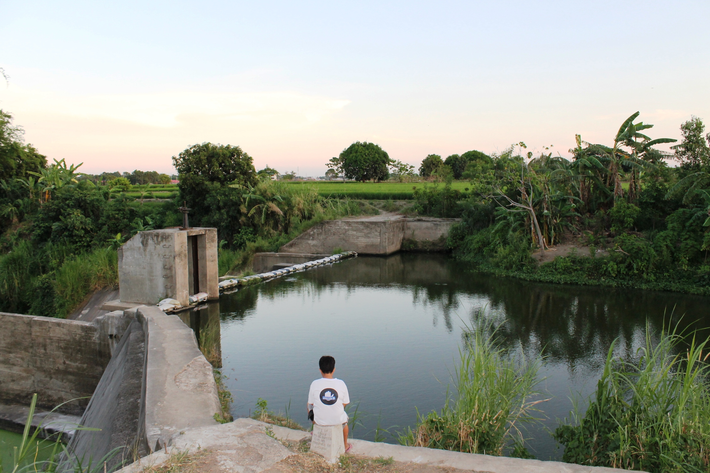 A dam that irrigates a ricefields in Brgy. Lantic, Carmona, Cavite